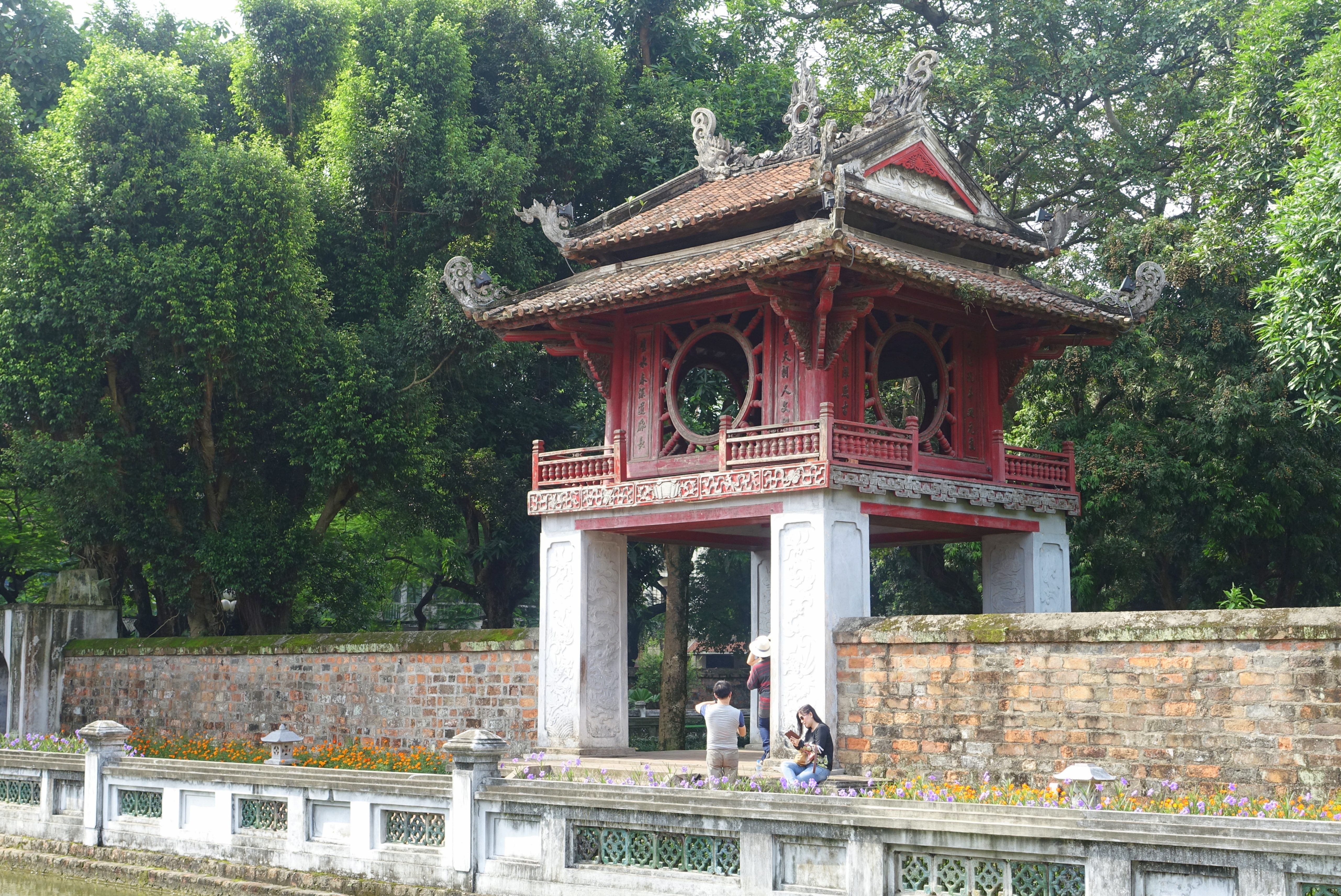 Constellation of Literature pavilion - Temple of Literature, Hanoi, Vietnam.